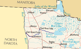 National Atlas image with Red Lake River highlighted.